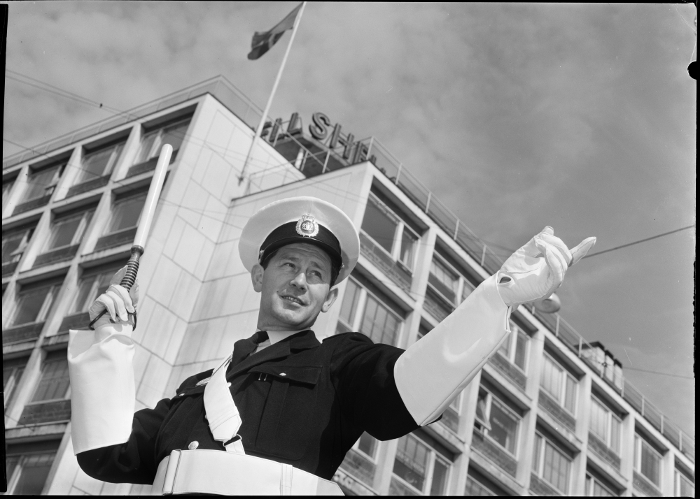 Traffic officer KB id: turck_58725 Photo: Sven Türck (1897-1954) Department of Maps, Prints and Photographs, The Royal Library, Denmark.